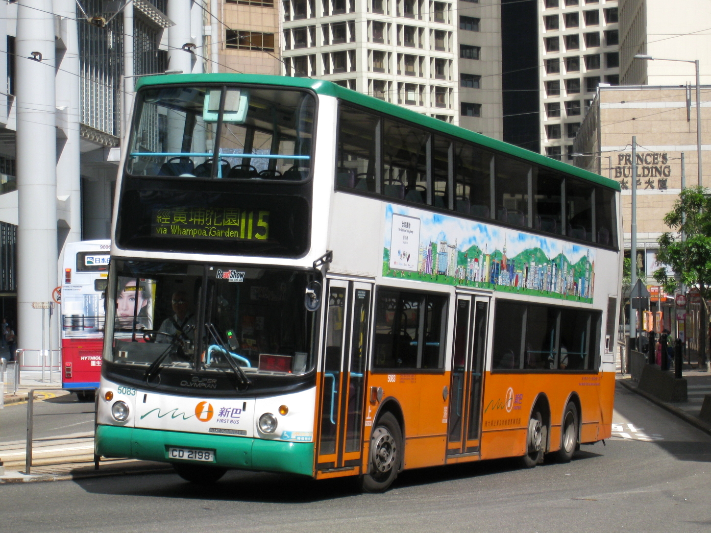 Volvo Super Olympian 12m (New World First Bus 新巴 5083)